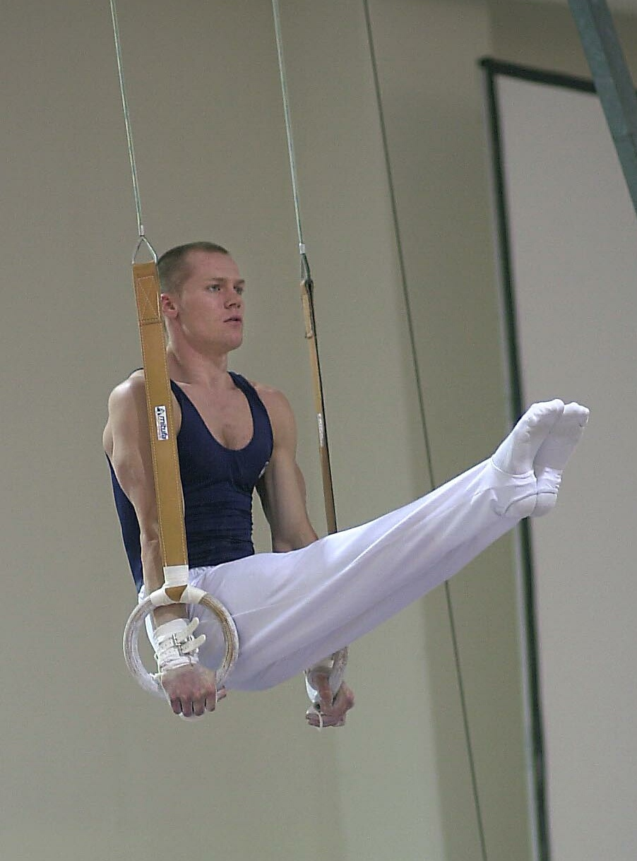 Norwegian gymnast Kristian Solem in rings at the Norwegian championships in 2001.